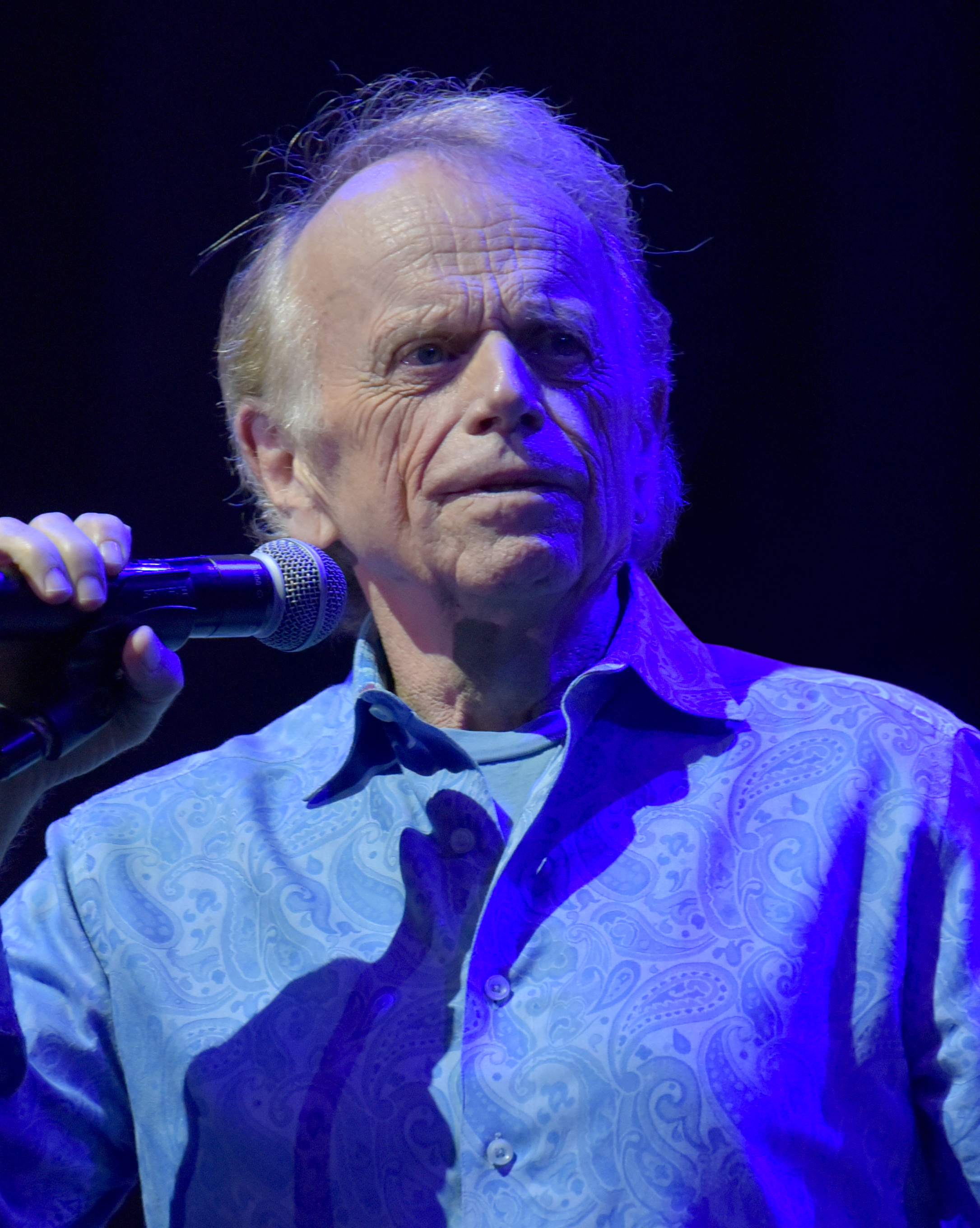 Al Jardine performing for the California Saga 2 Charity Fundraiser in Los Angeles California on July 3, 2019 - Photo by Glenn Francis of